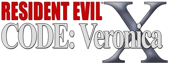 Resident Evil Code: Veronica X logo